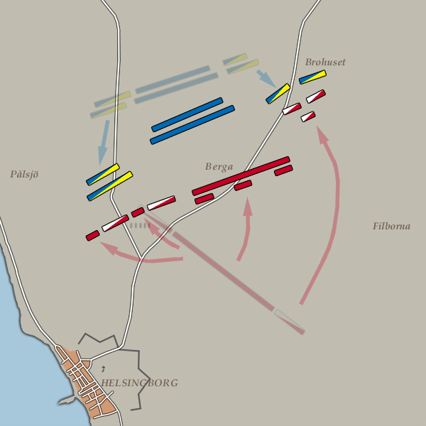 First contact between the fighting parties.